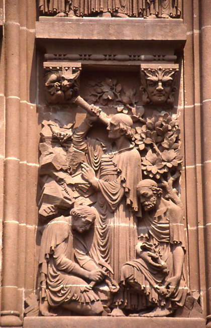 photo by Einar Einarsson Kvaran aka Carptrash 01:37, 1 February 2007 (UTC). Alexander Memorial Hall, sculpture by J. Massey Rhind The picture is from The Field Guide to Architectural Sculpture in the United States by Kvaran & Lockley